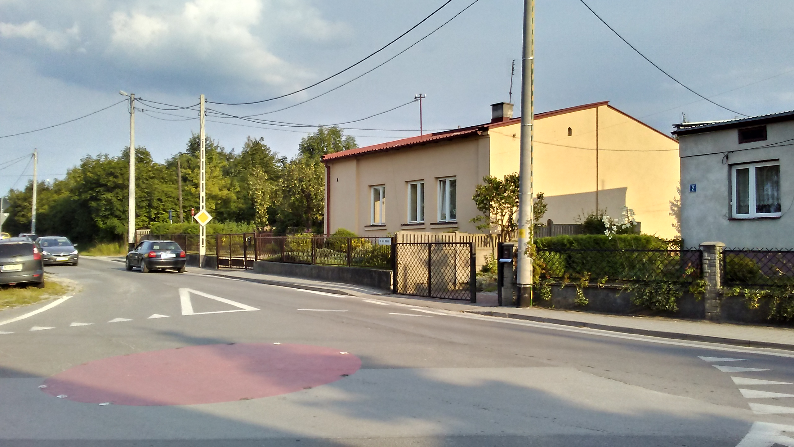 Bialobrzegi – district of Tomaszów Mazowiecki, Poland. Roundabout and road to Spała.